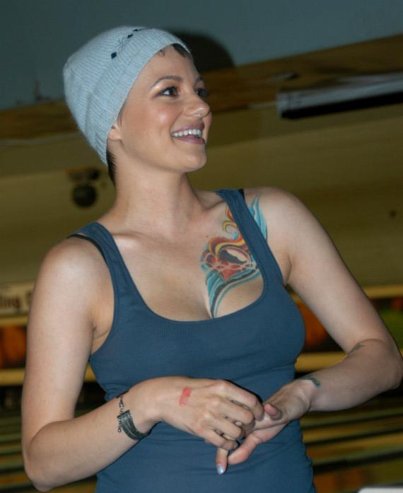 Belladonna, taken at a bowling event on May 29, 2005